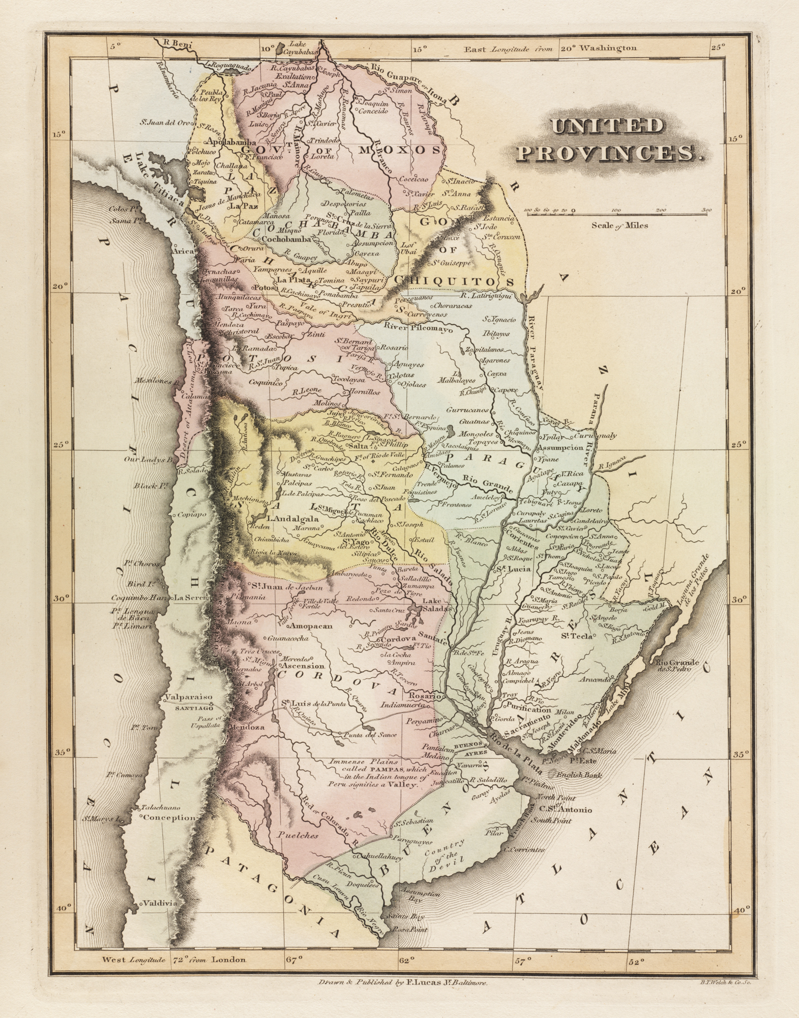 Zoom into this map at . Author: Lucas, Fielding Publisher: F. Lucas Date: 1823. Scale: Scales differ. Call Number: G1019.L8 1823